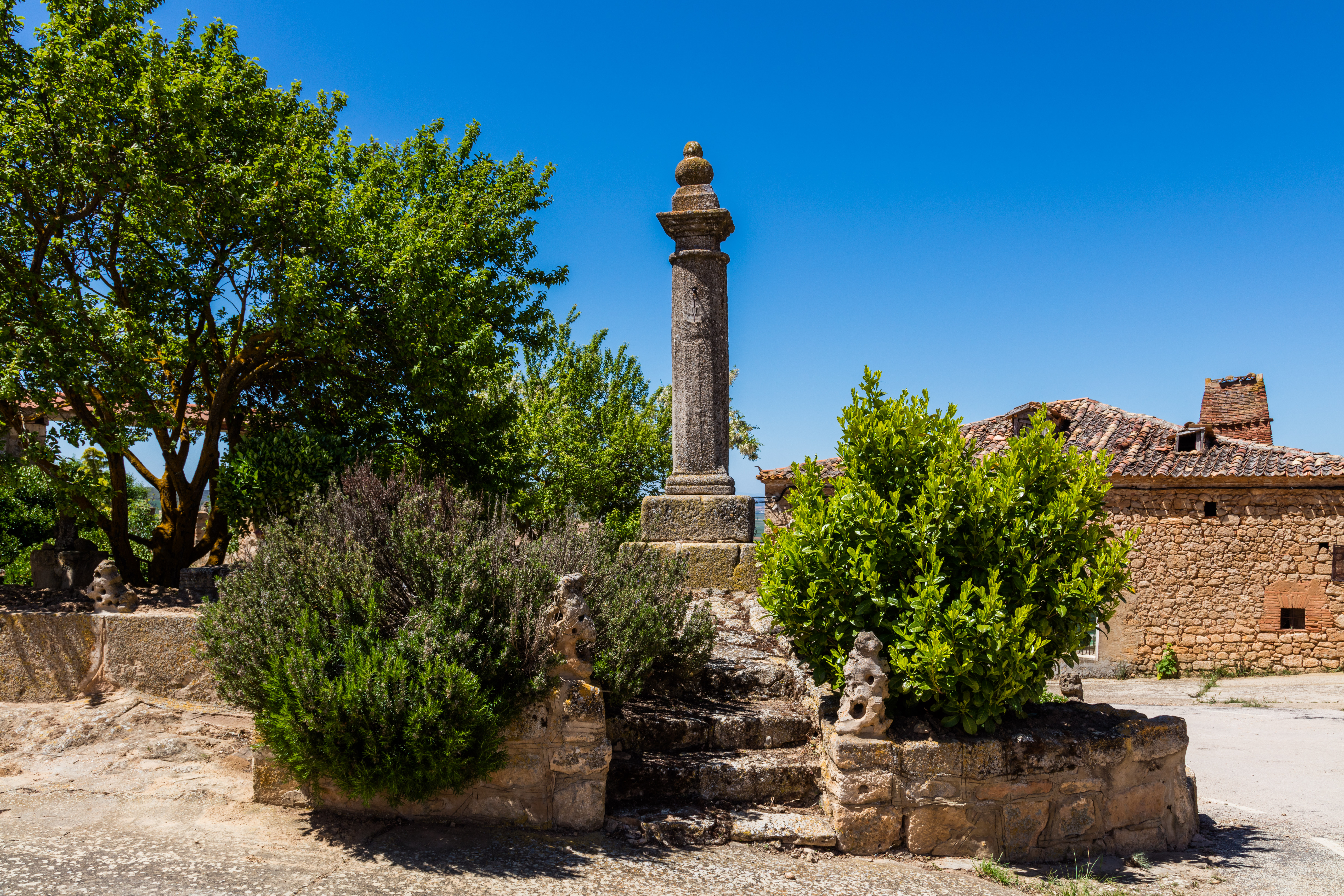 Pillory in Moñúx, Soria, Spain